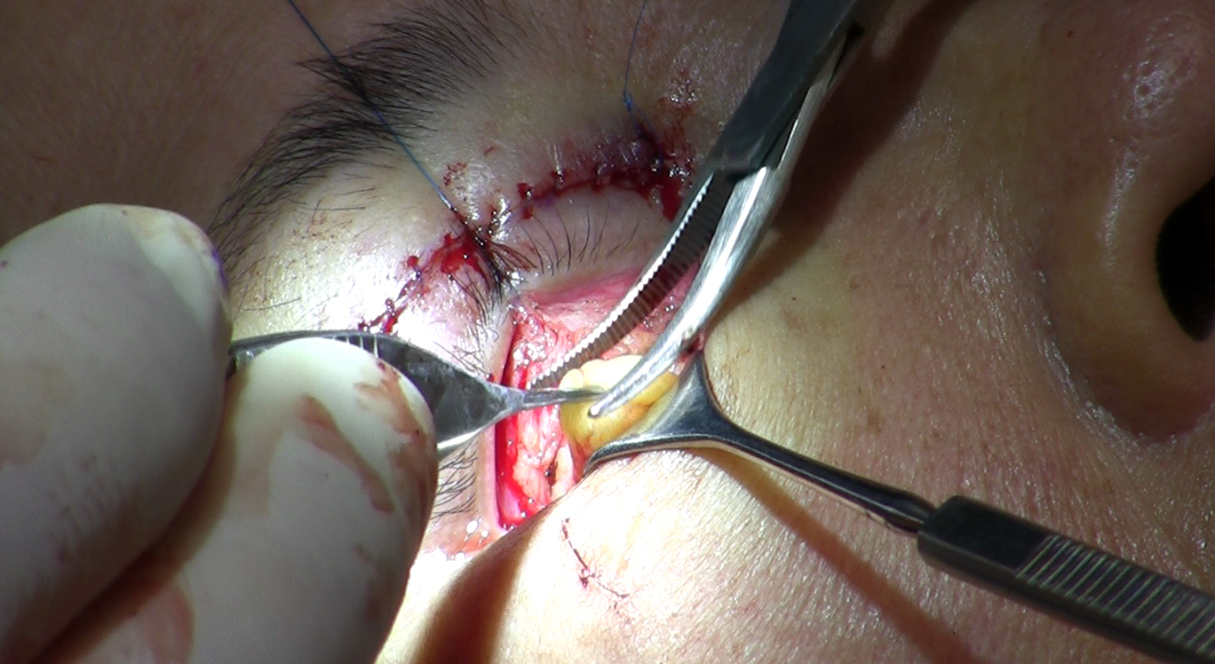 Accessing a pocket of fat from the lower eyelid during a blepharoplasty procedure.